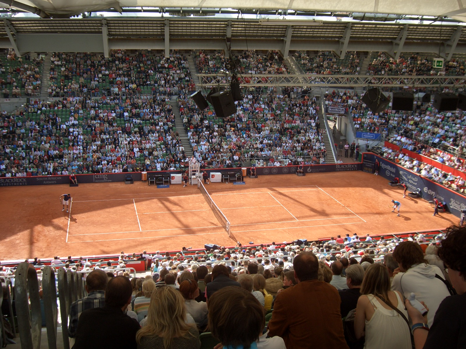 Rafael Nadal vs Potito Starace at the Hamburg Masters 2008